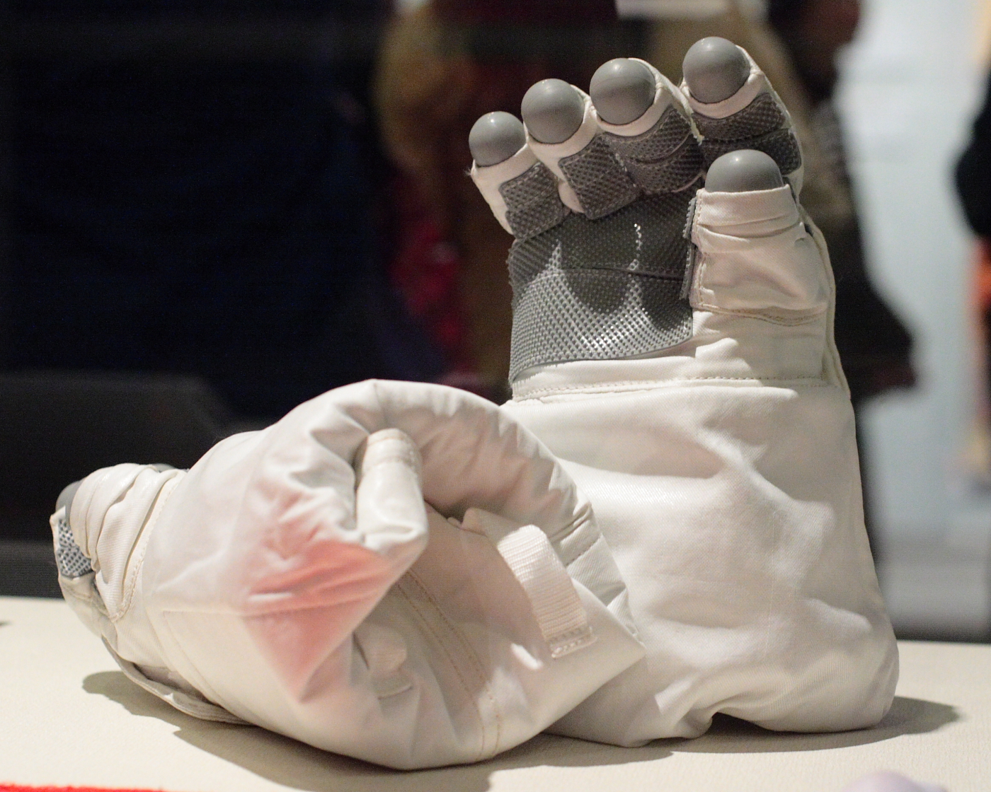 Chinese EVA Gloves, used in the first Chinese EVA mission. Taken at the Hong Kong Space Museum, 6 Dec 2008.